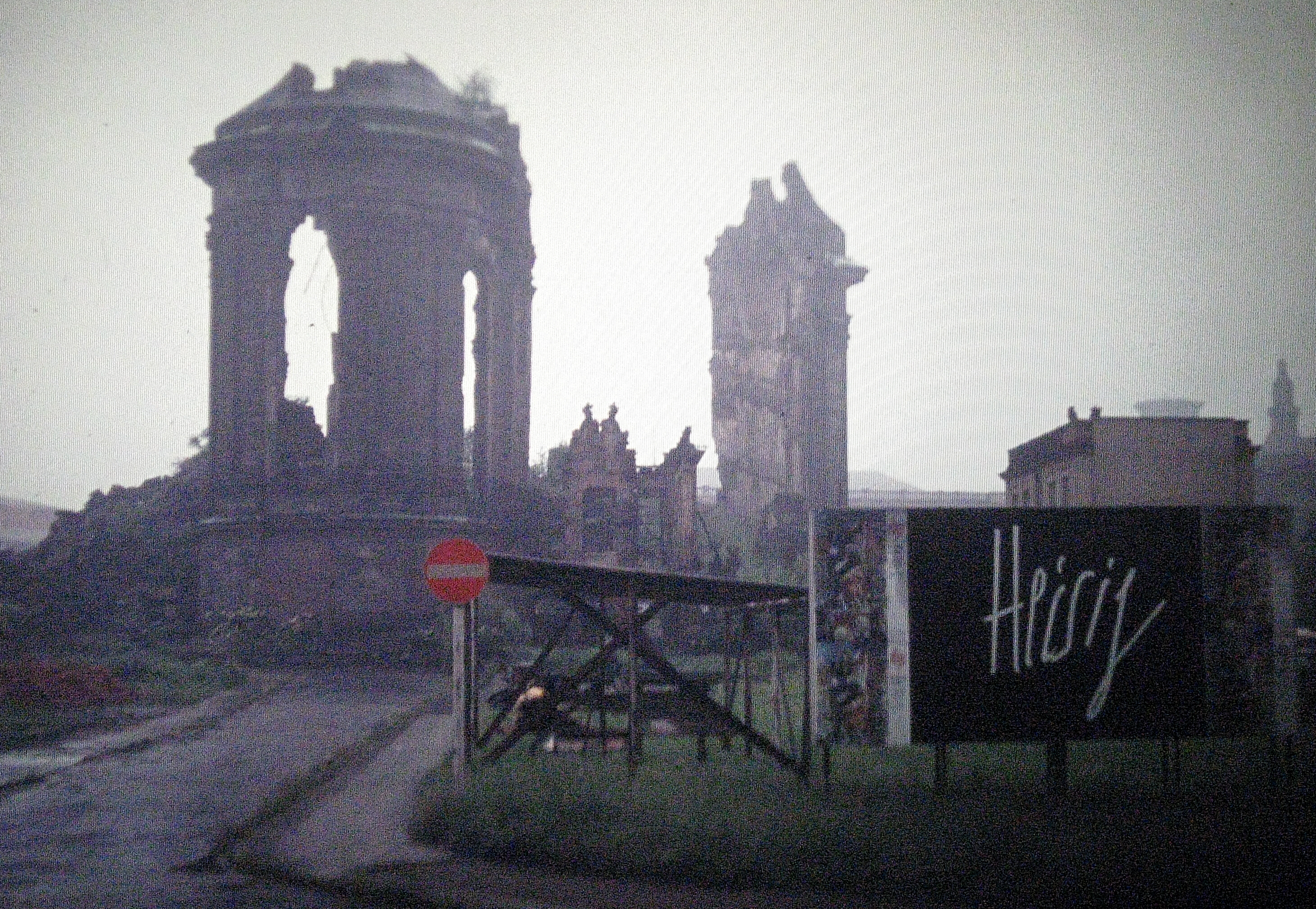 Ruin of the Frauenkirche, Dresden on a rainy day in May 1973